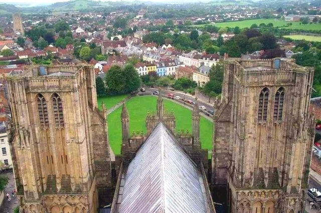 The city of Wells, Somerset, UK as seen from atop the central tower of Wells Cathedral looking West.